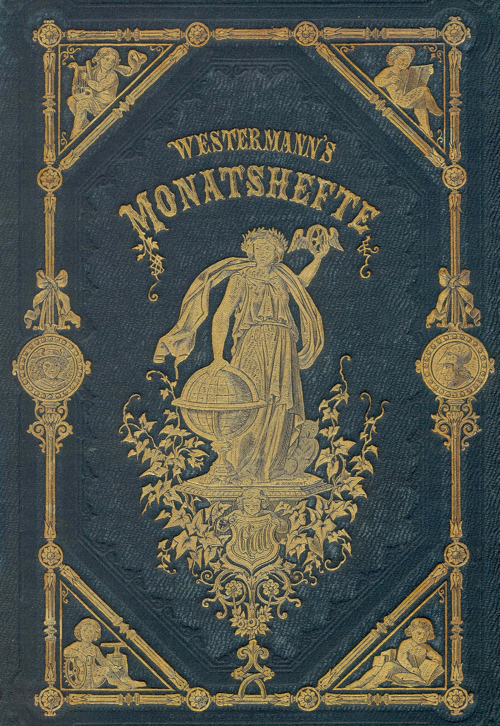 Westermanns Monatshefte: Book cover from 1861.